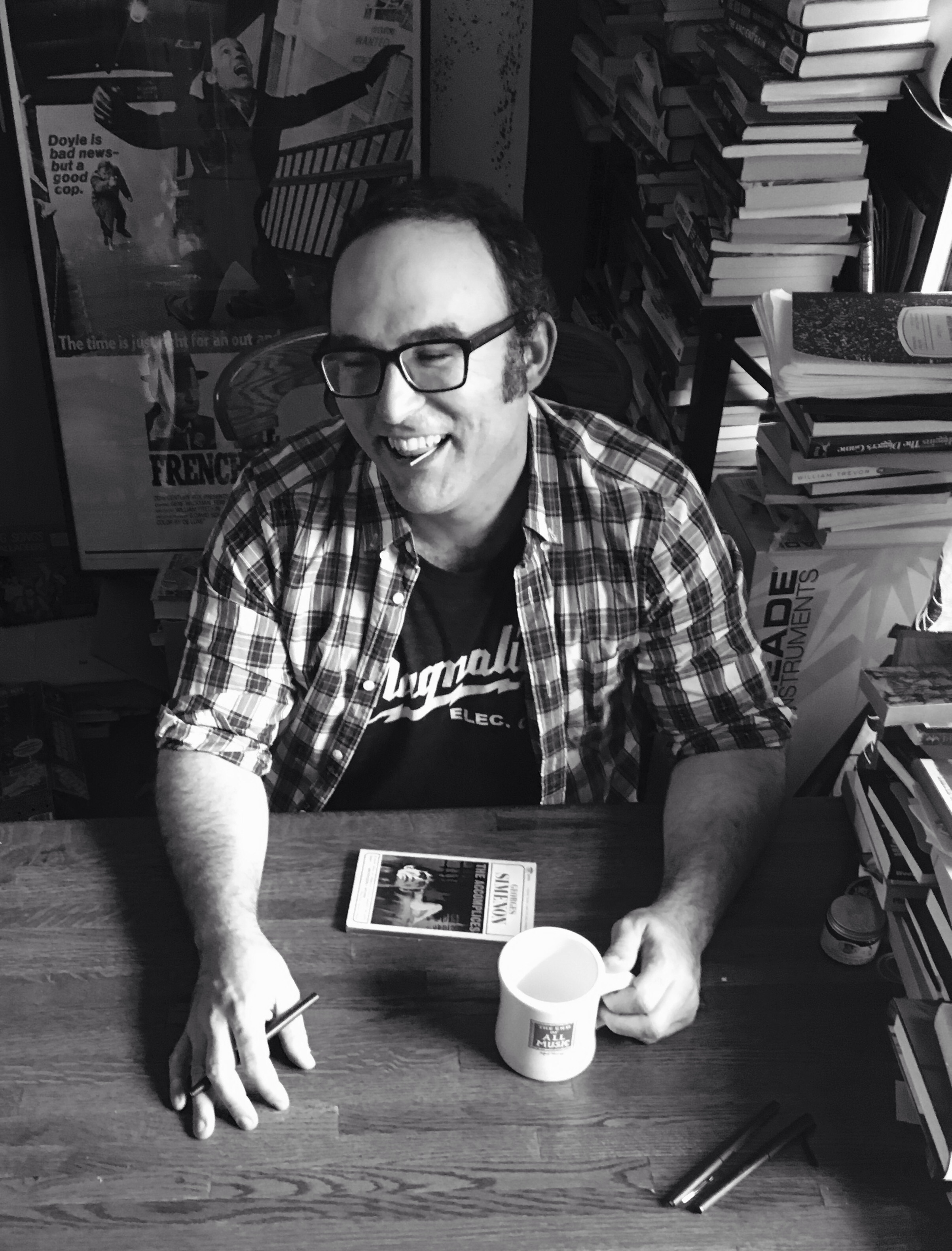 Press photo for author William Michael Boyle.